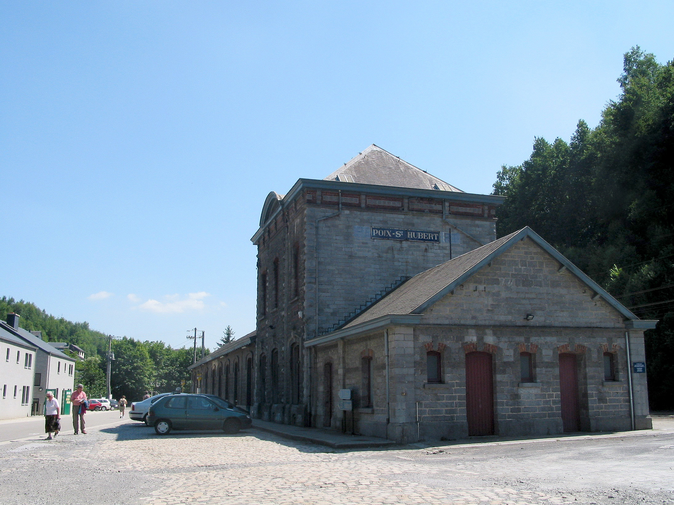 Poix-Saint-Hubert (Belgium), the former railway sattion.